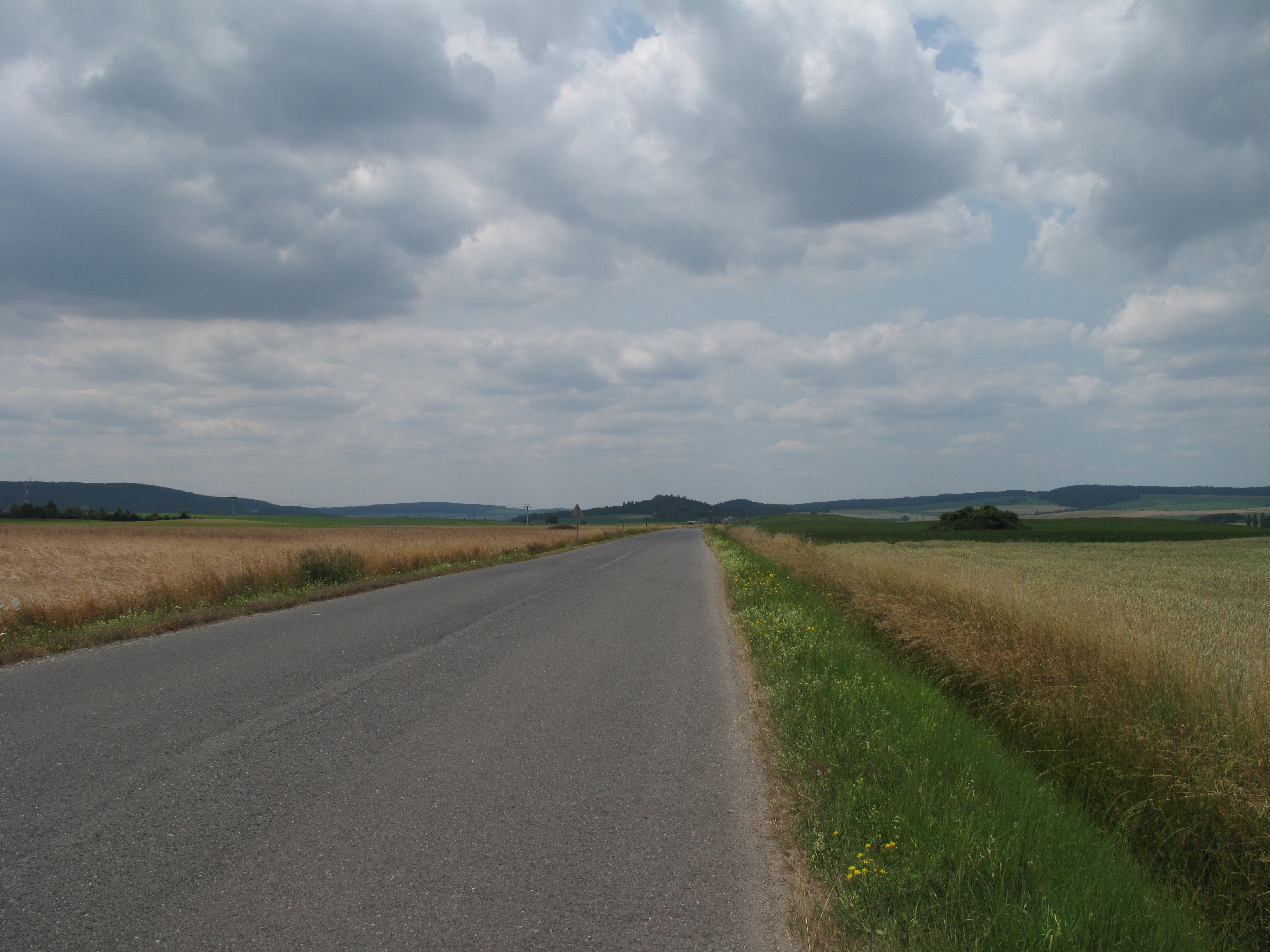 Natural memorial Vosek as seen from Díly, Rokycany District, Czech Republic.